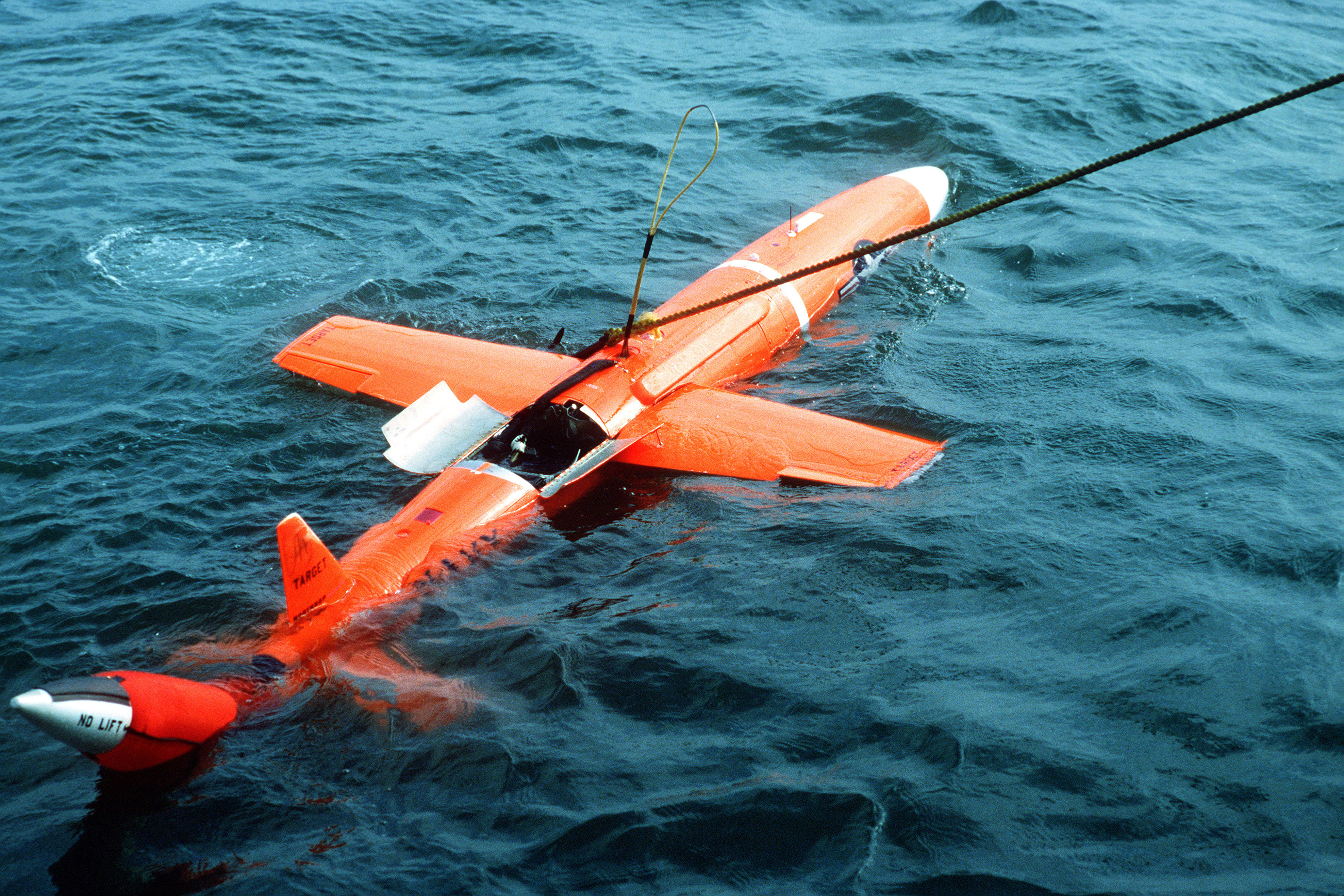 A Northrop NV-105 Chukar II (MQM-74C) lightweight target drone is retrieved by crewmen aboard the drone recovery craft USS RETRIEVER (DR 1) after a test launching.